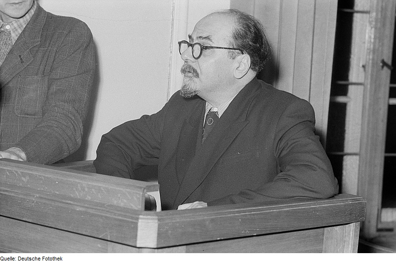 Musicologist Georgiy Nikitich Khubov (1902-1981) on the pulpit [1]